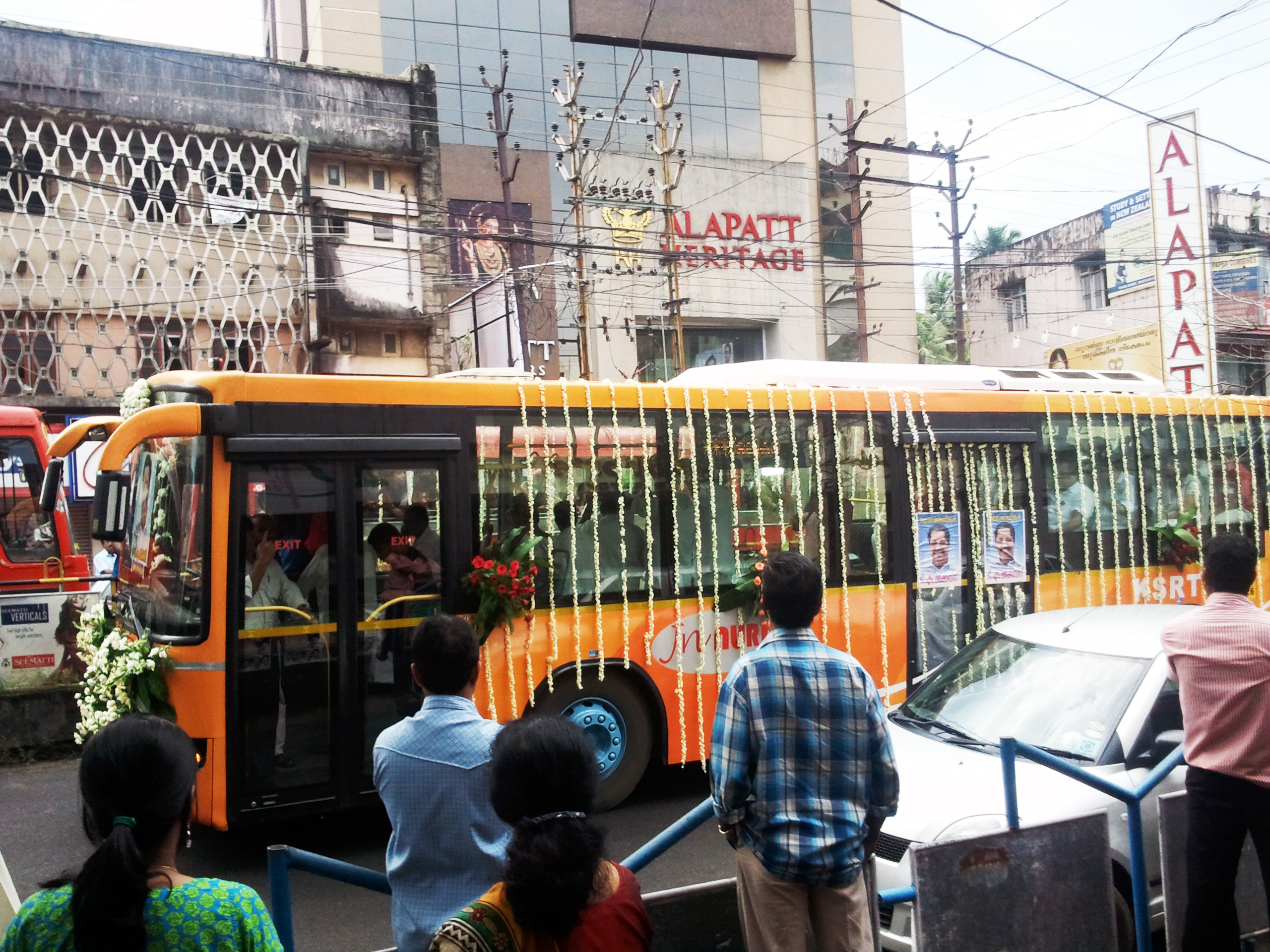 TM Jacob (Cochin)